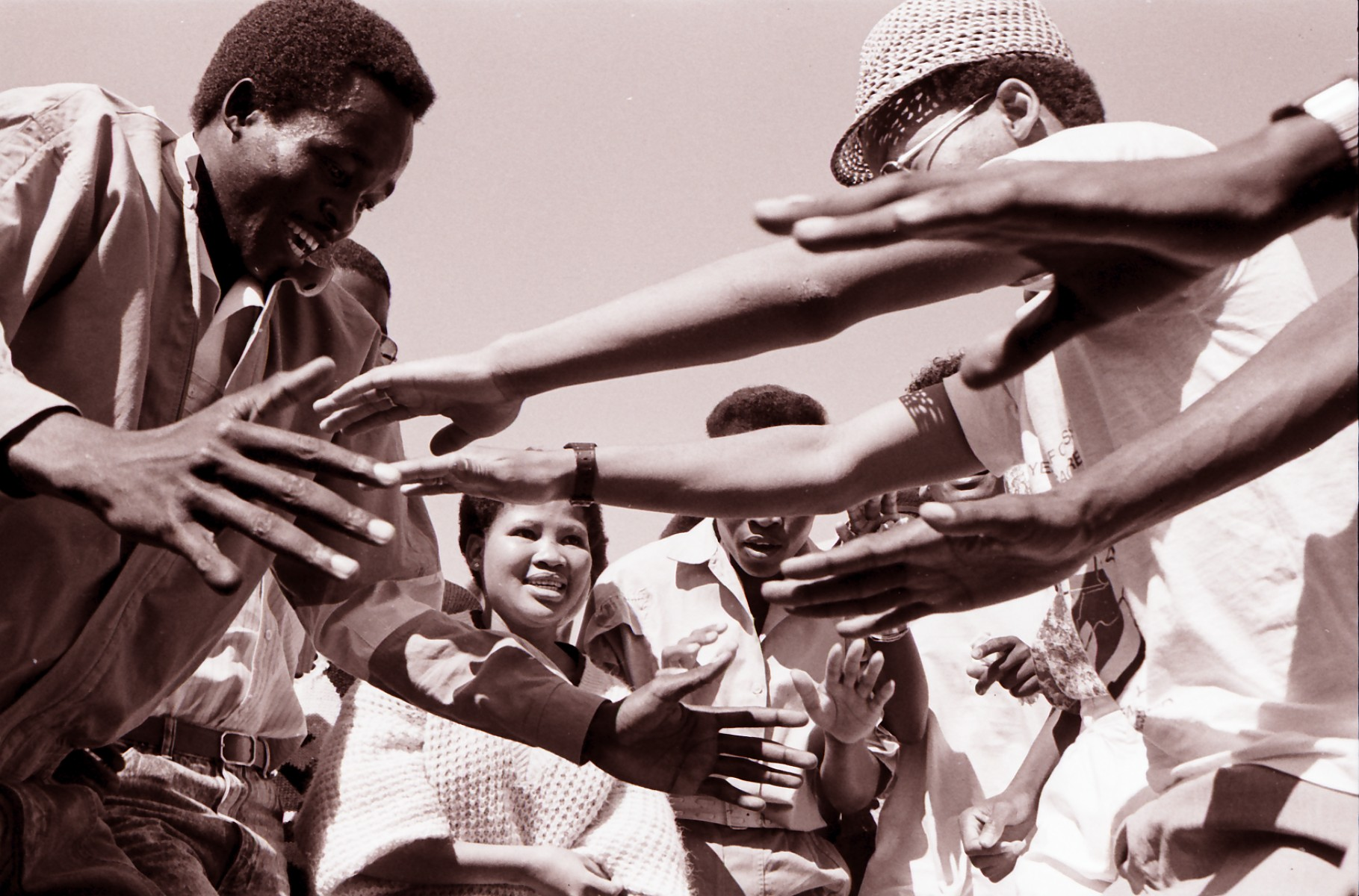 Academy students Toi Toi 1988